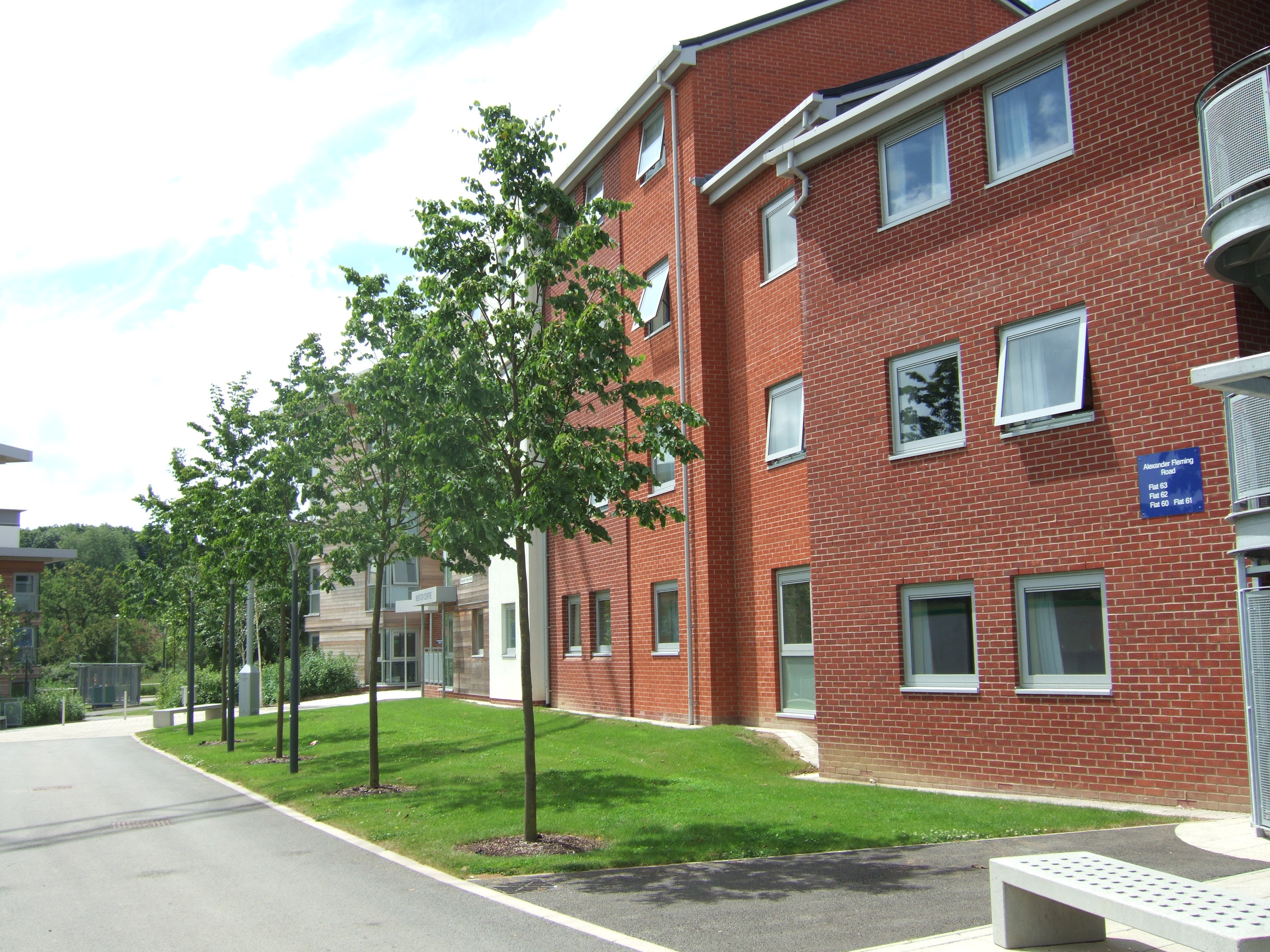 Outside a typical residence, Manor Park, University of Surrey